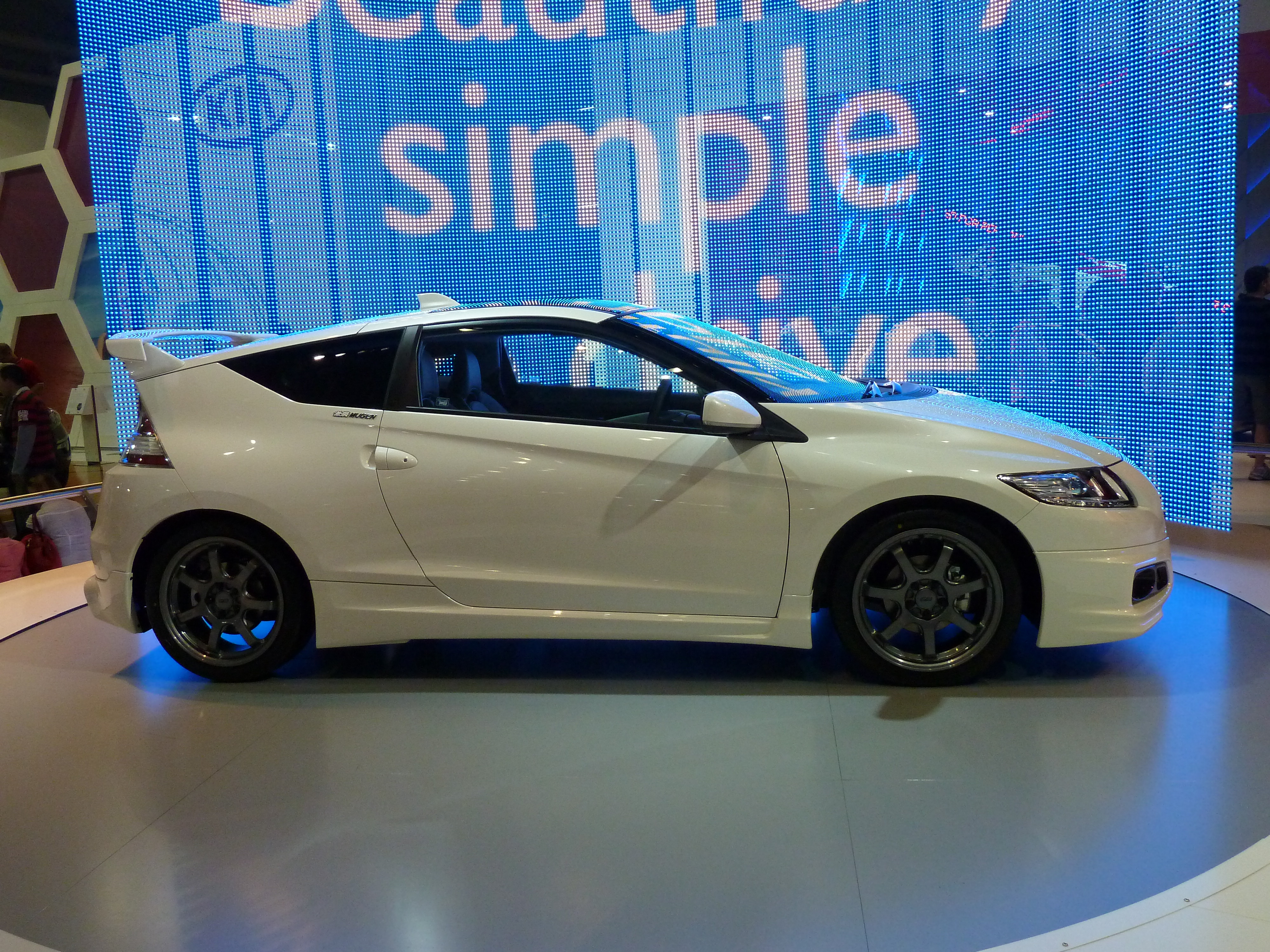 Honda CR-Z Mugen hatchback. Photographed at the 2010 Australian International Motor Show, Sydney, New South Wales, Australia.